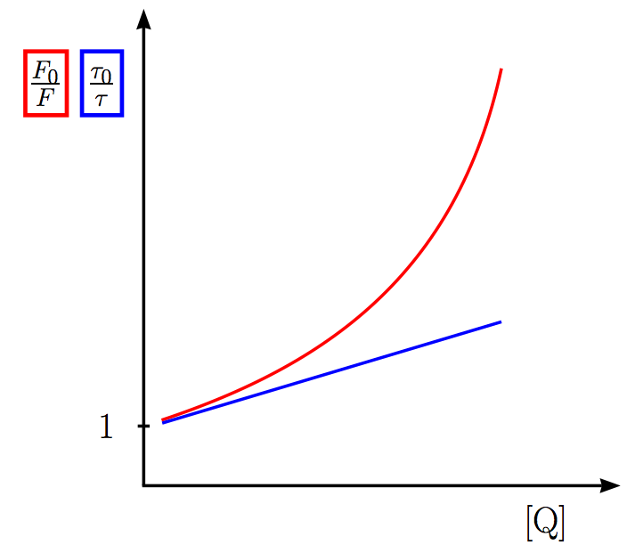 Stern-Volmer-Plot for combined Quenching